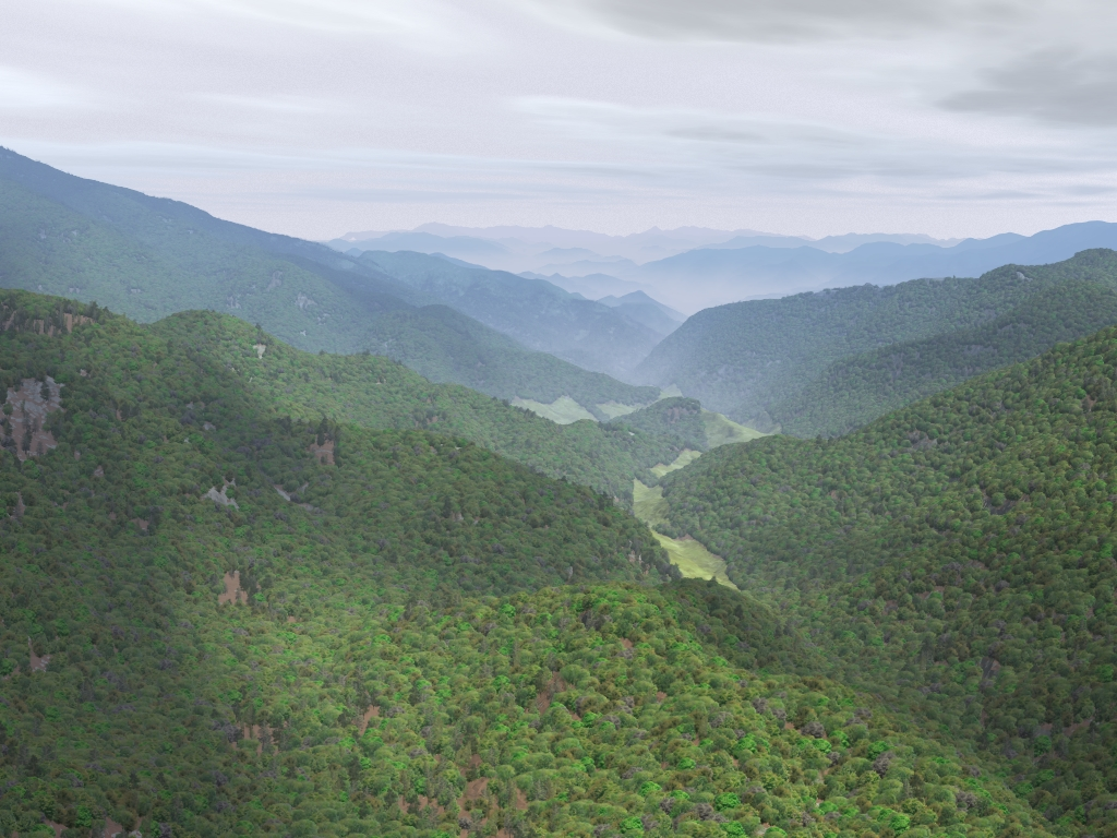 Computer-generated 3D landscape rendering made with Visual Nature Studio 2.5 from 3D Nature. This is a study in Appalachian atmospherics, colorations are based on a series of digital photographs taken in western North Carolina and southwestern Virginia one day in May. Both exponential and volumetric atmospheres are used to create the complex effect. Haze has distance-based color textures on both the terrain and clouds to match the photos. Sunlight color includes a fractal noise pattern to simulate cloud shadows with a cool dark light in the shadows. The trees of the Blue Ridge are under attack by insect and disease and many have died leaving grey reminders throughout the shady coves and sun-gilded slopes.